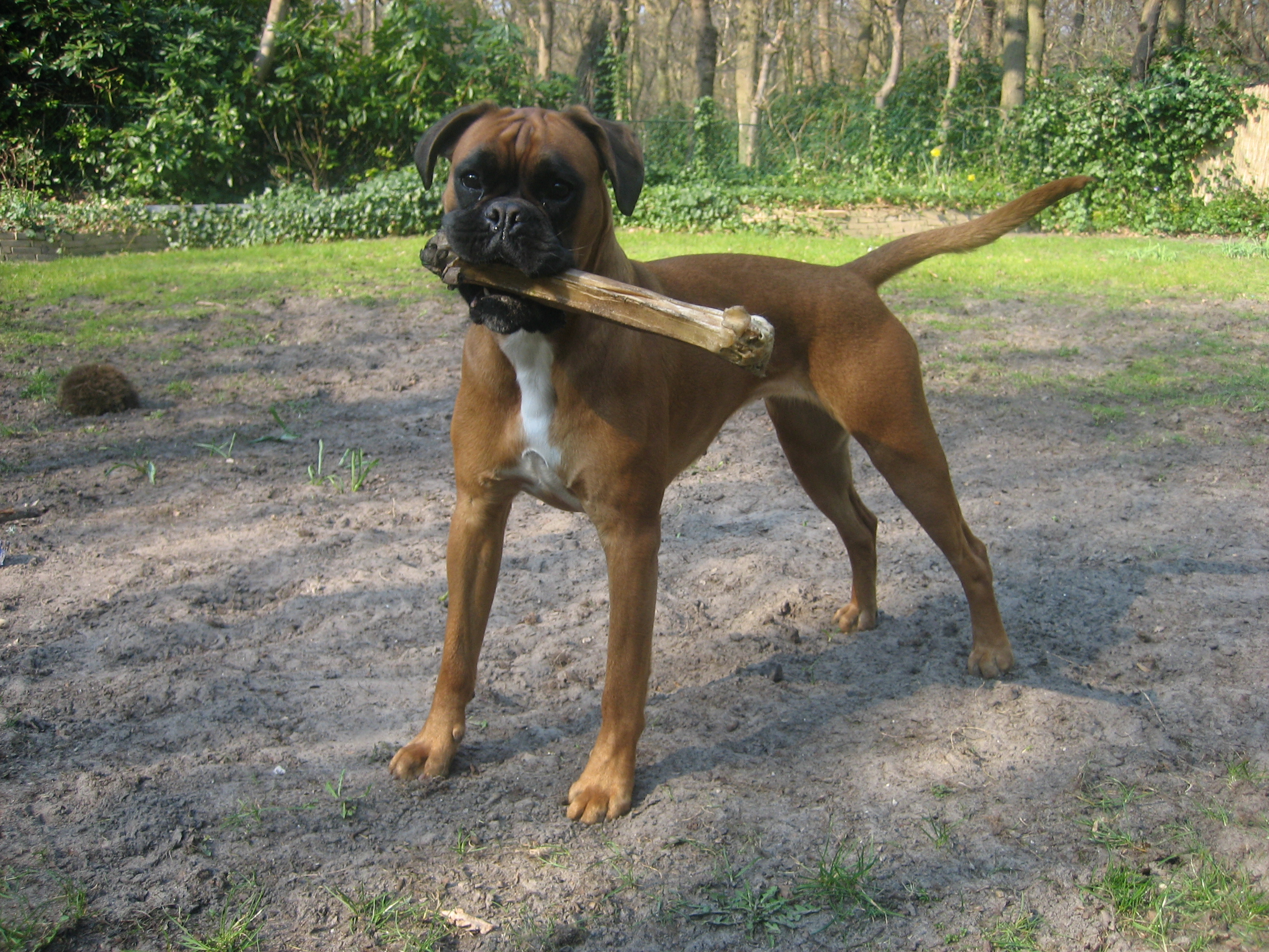 this is me and my toy